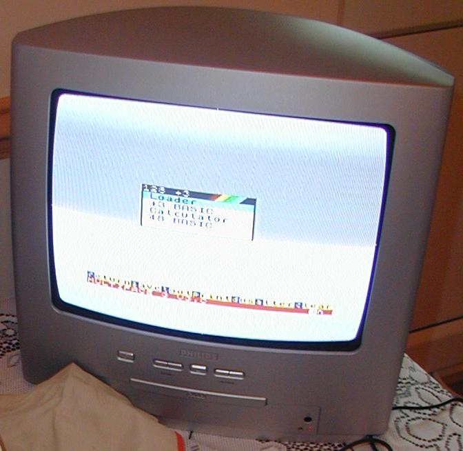 From File:Spectrum+3_with_multiface.JPG.